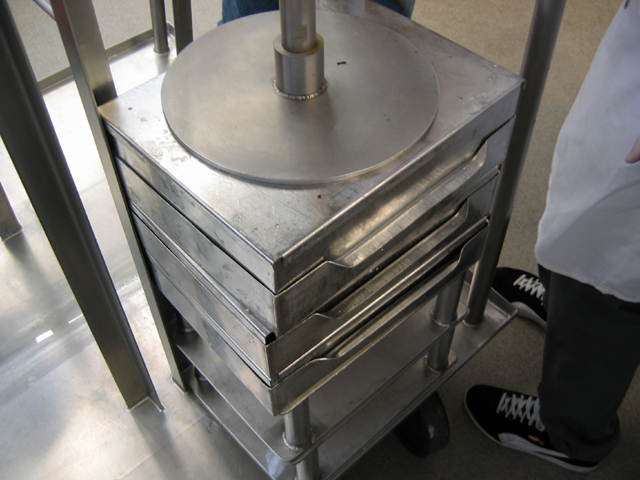 Chedder cheese molds loaded onto cheese press